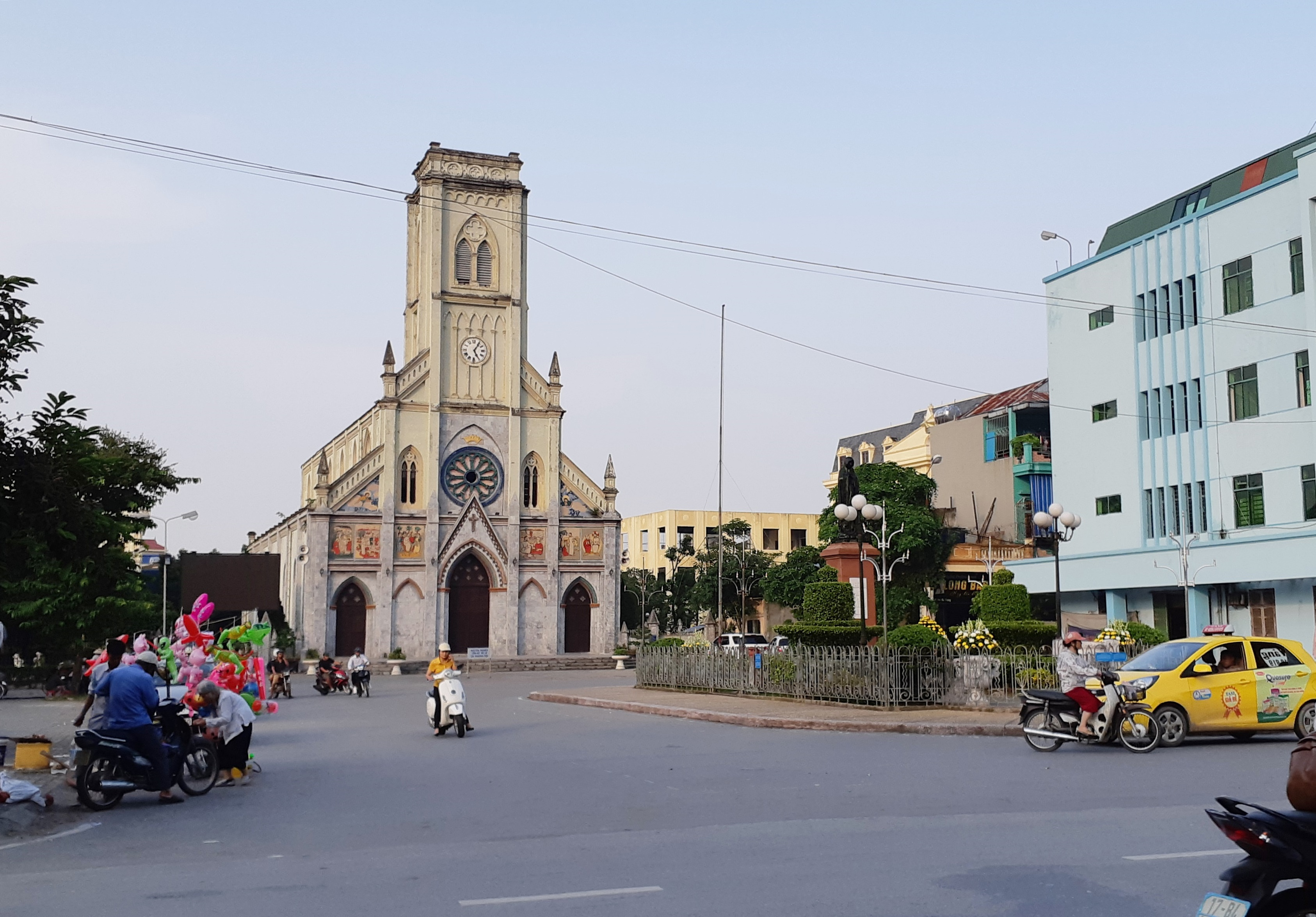 Nu Vuong Hoa Binh Square in Nam Dinh City, Nam Dinh Province, Vietnam.